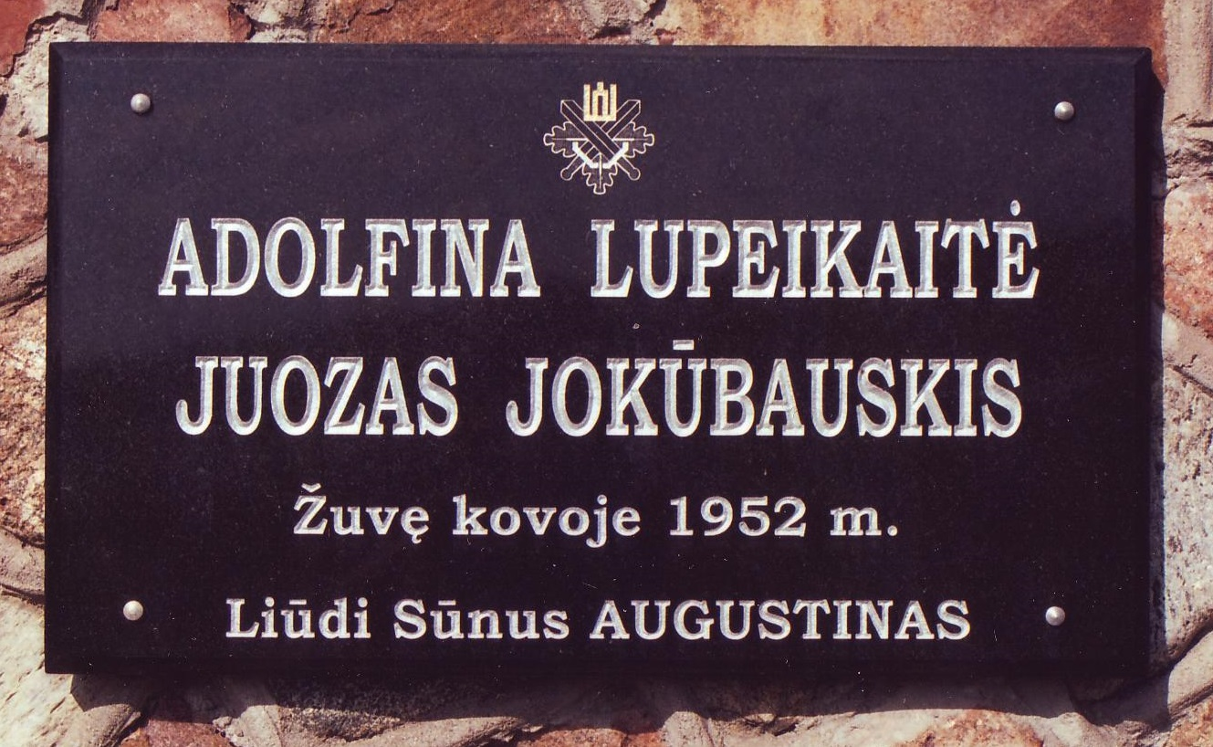 Žvainiai, Kretinga district, LithuaniaLietuvių: Žvainių paminklas partizanams paminklinė lenta, Kretingos rajonas, Lietuva